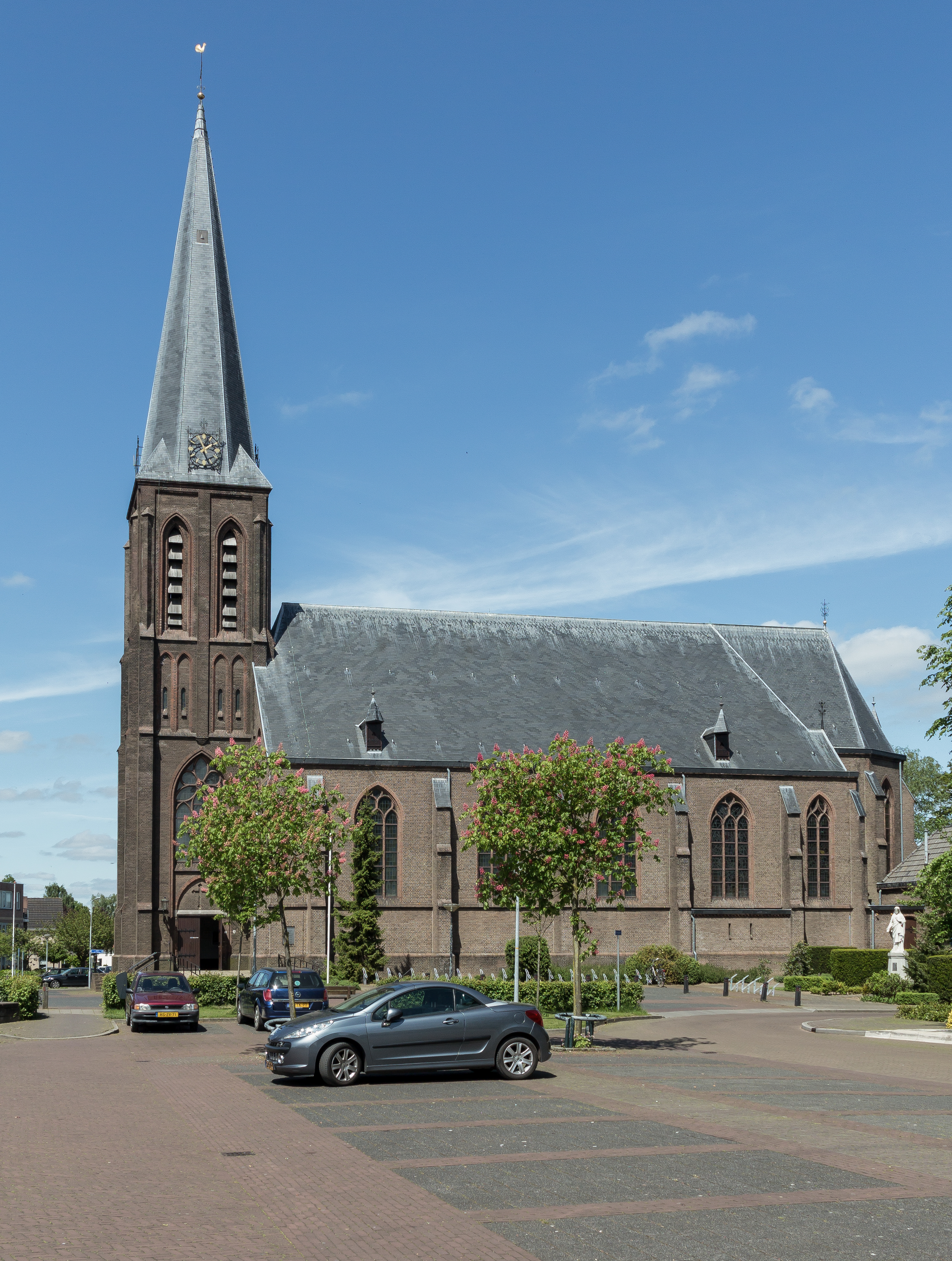 Gendringen, church: de Sint Martinuskerk